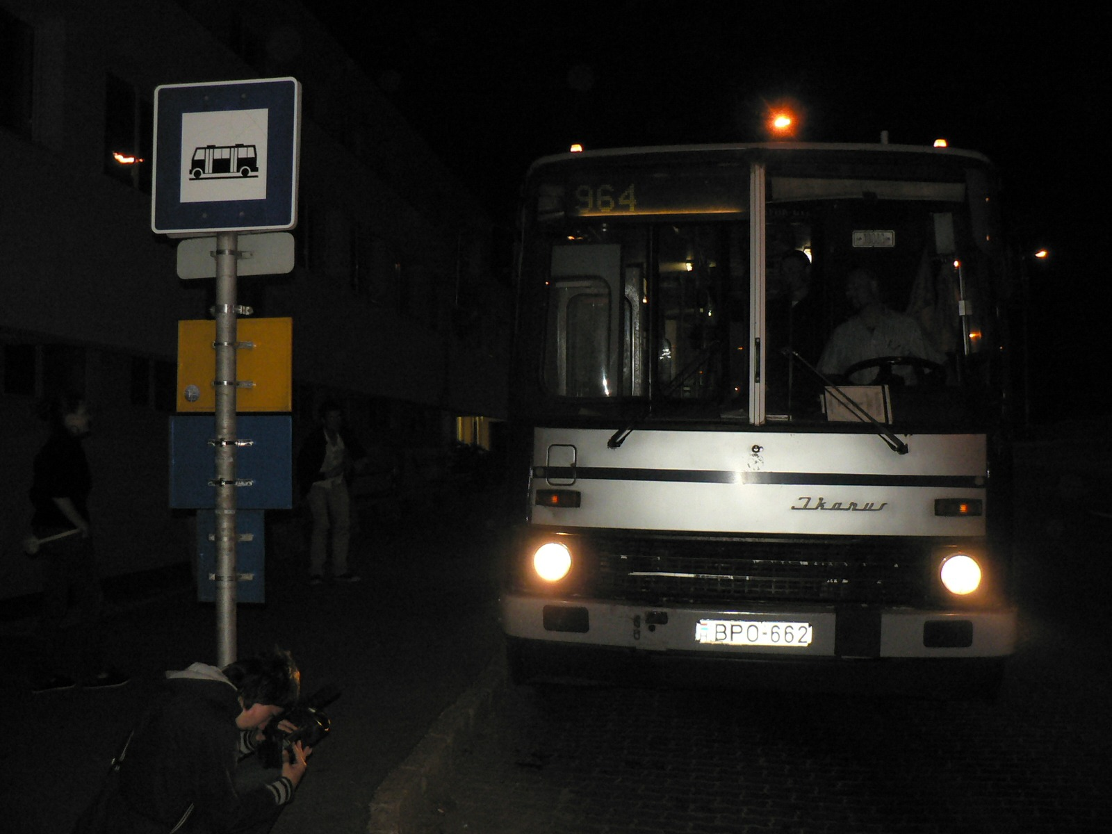 Az első 964-es járat az indulása előtt Solymár, PEMŰ végállomásnál (2012. május 1., pár perccel éjfél után)